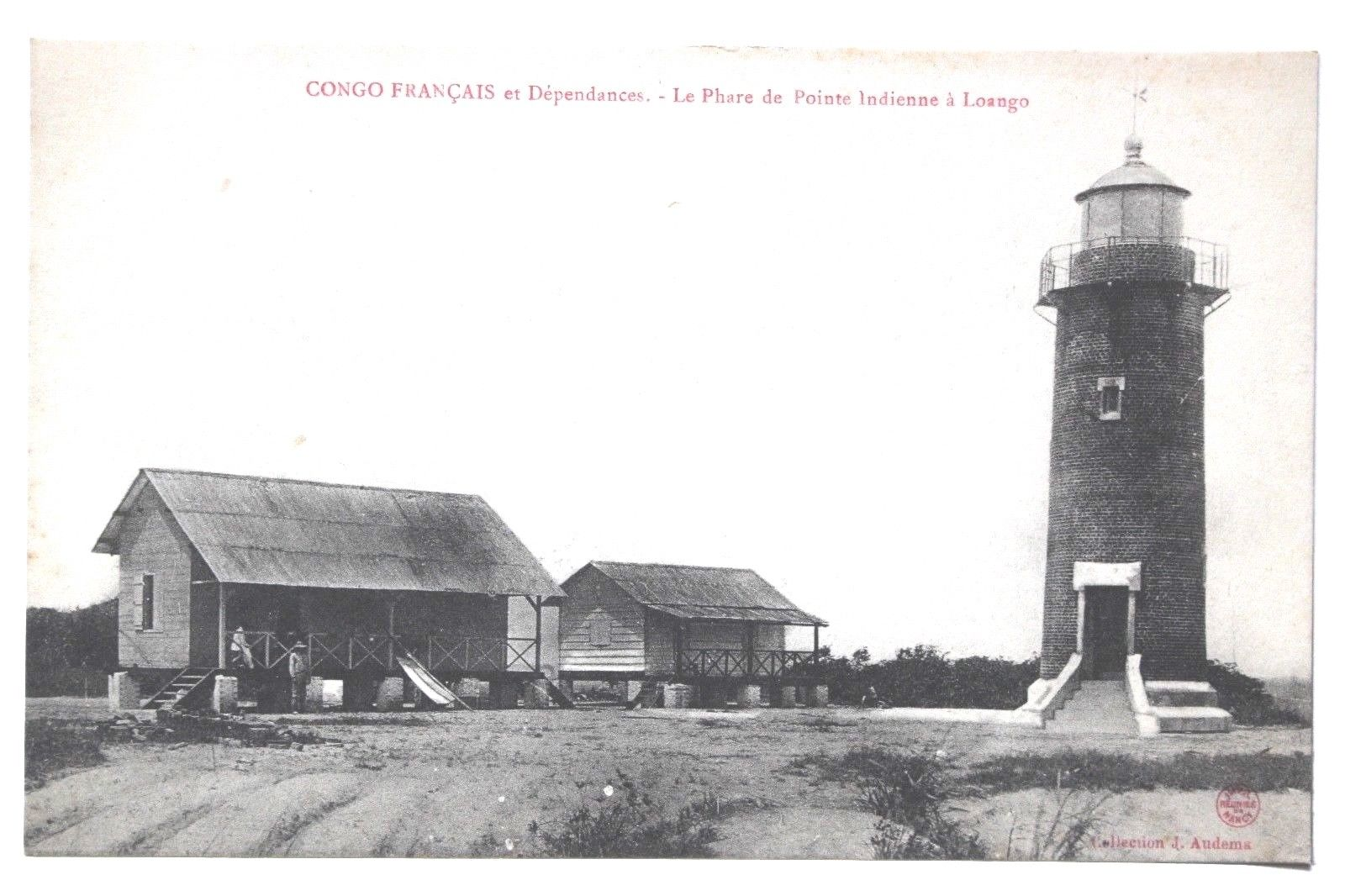 Postcard from French Congo & dependencies - Pointe Indienne Lighthouse